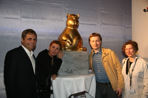 Photo taken at the Berlin Film Festival in February 2007 during the ceremony of the Teddy Award. From left to right: Jacques Teyssier, Eugenia Debrianskaya, Nikolai Alekseev and Olga Zhuk